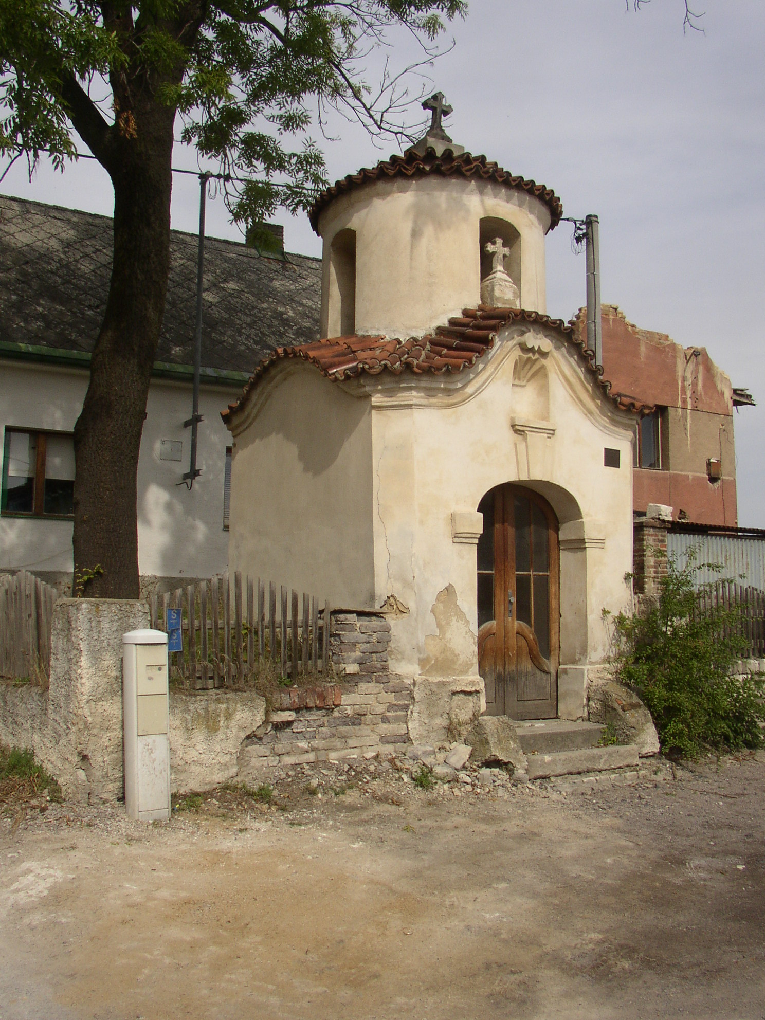 Chapel in core of Motyčín, one of two constituent neighbourhoods of Švermov suburb, Kladno, Kladno District, Czech Republic. View from the south.